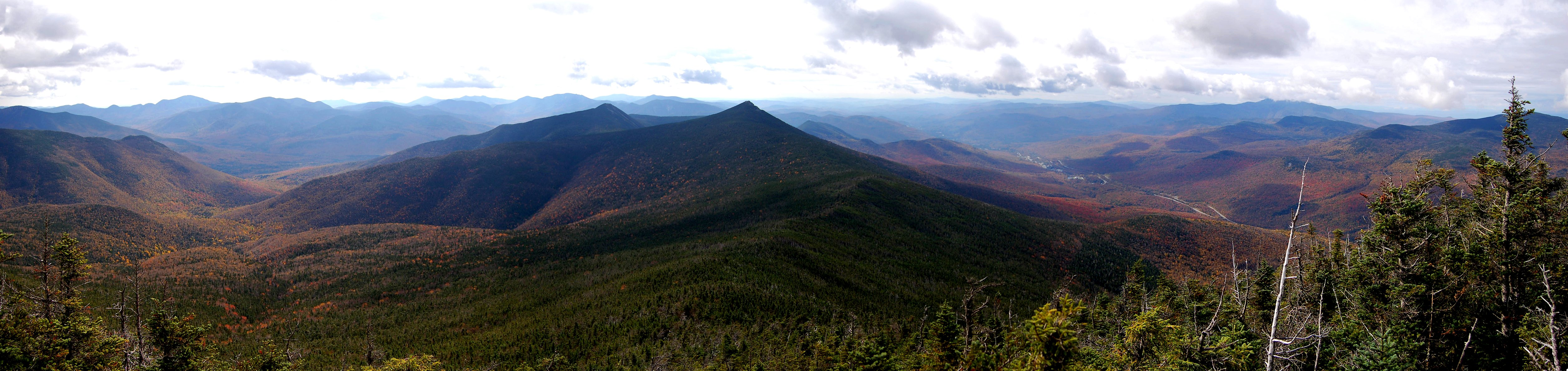 Panorama showing Mt Liberty, Mt Flume, parts of the Pemigewasset Wilderness, and parts of Franconia Notch State Park